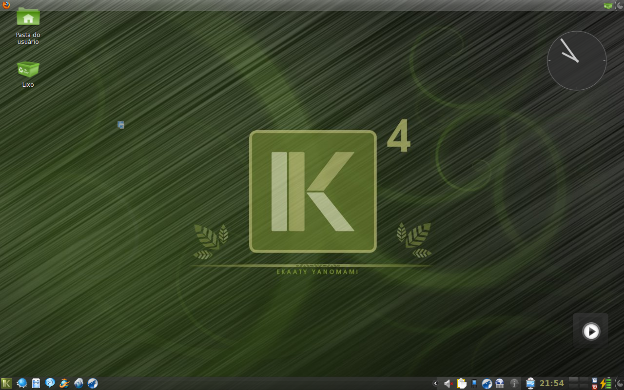 Desktop from Ekaaty Linux 4 - Yanomami